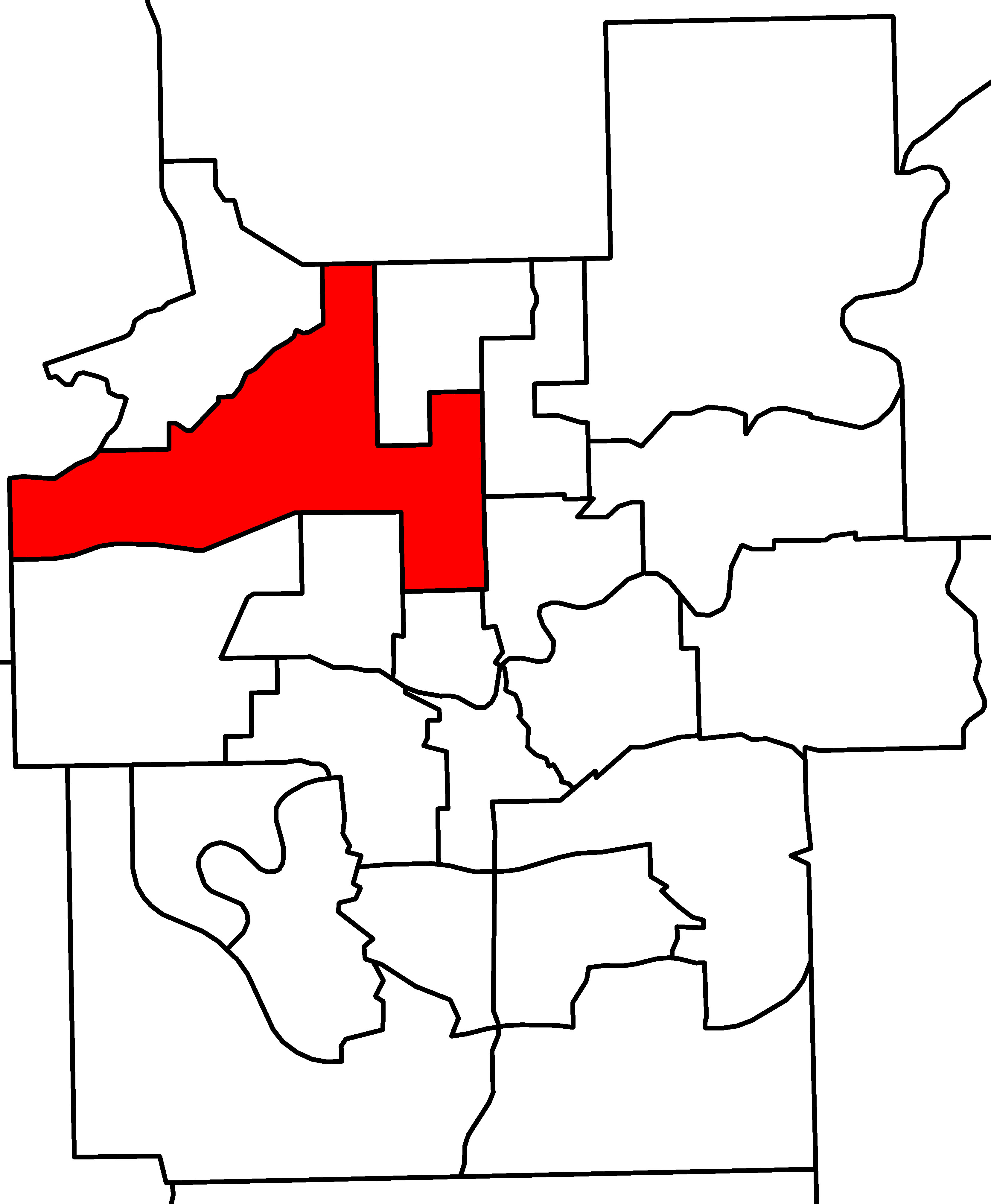 A map of Alberta provincial electoral districts, effective 2010, in the Edmonton area. Edmonton-Calder is highlighted in red.